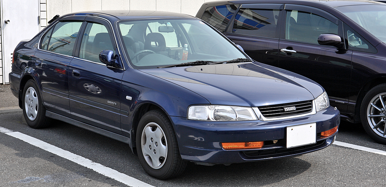 Isuzu Gemini 1.5 C ( MJ4 )